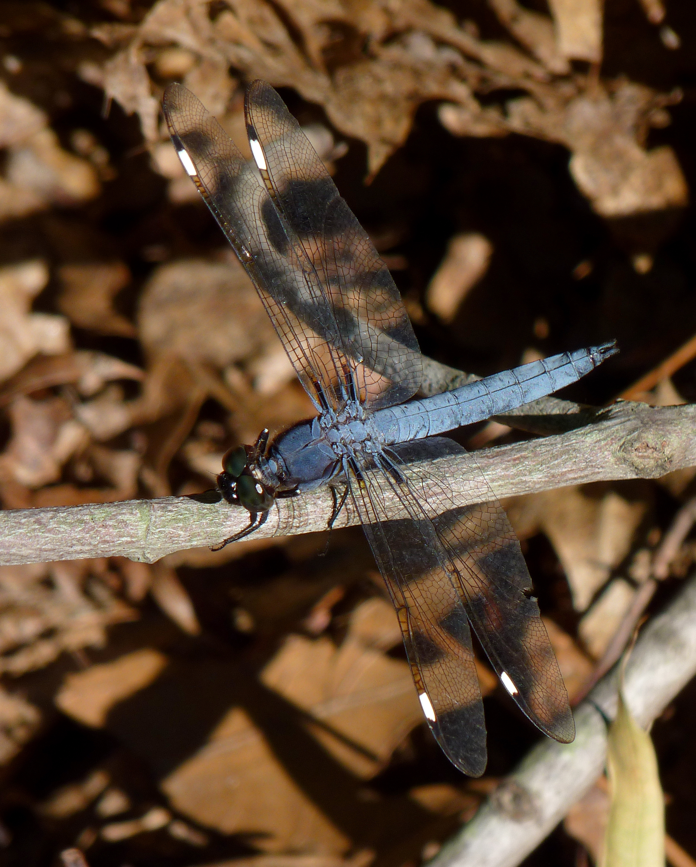 Spangled Skimmer (male)